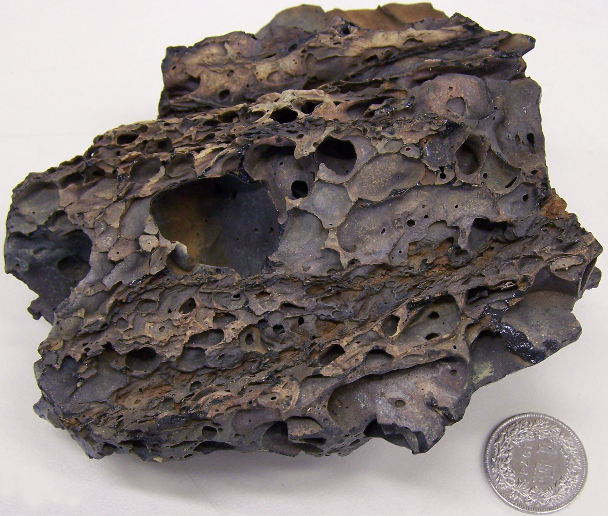 Scoria. Location unknown, from the collection of the Université de Neuchâtel. Coin of 1 Swiss franc (diameter 23,20 mm) for scale.